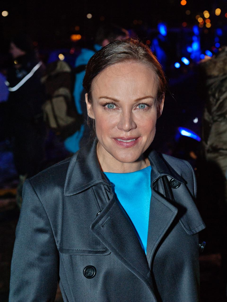 Sonja Kirchberger, Austrian actress, Berlinale 2012, ARD Degeto Blue Hour Party